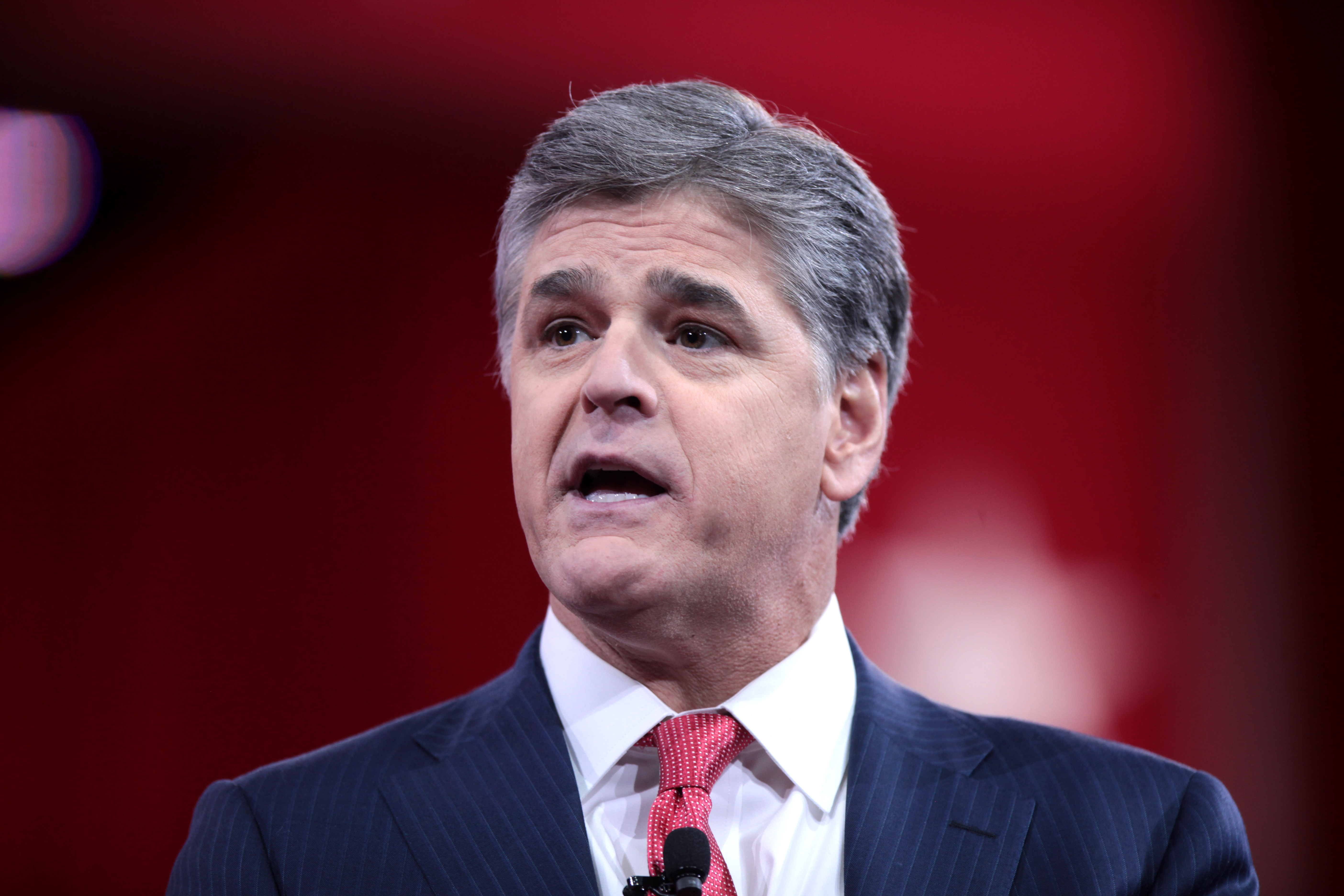 Sean Hannity speaking at the 2015 Conservative Political Action Conference (CPAC) in National Harbor, Maryland.